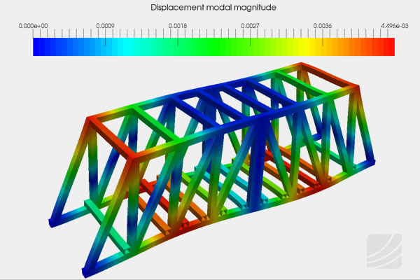 Frequency analysis of the truss bridge for first 20 eigenmodes. This simulation was performed with the cloud-based CAE software SimScale.